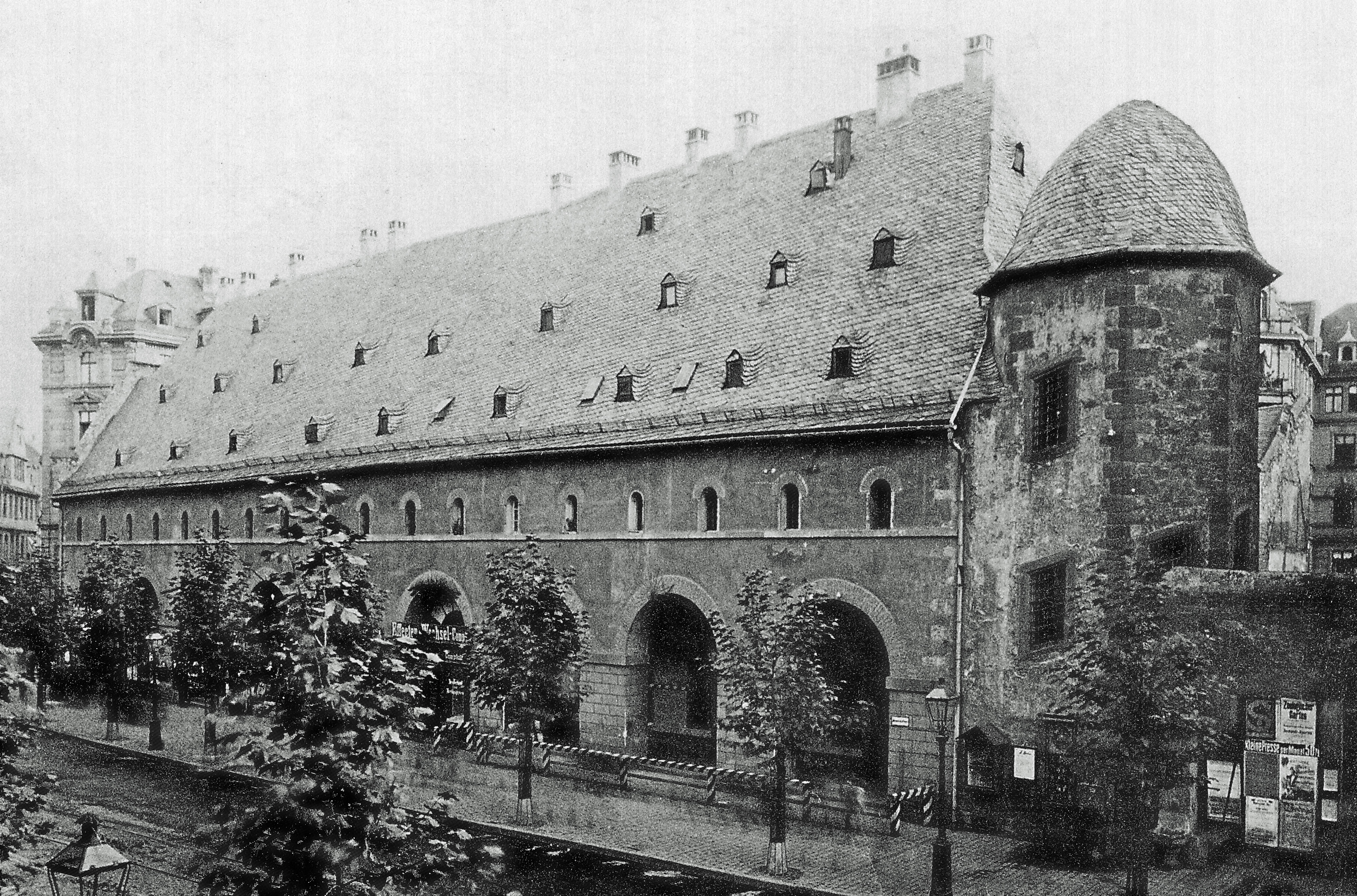 Konstablerwache building before its demolition